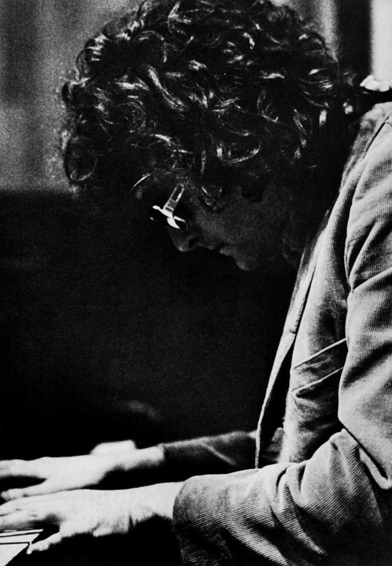 Trade ad for Randy Newman's album Sail Away.To better adapt it to his respective Wikipedia article, the ad was cropped and cleaned in a graphics editing program. The original can be viewed at the source below.